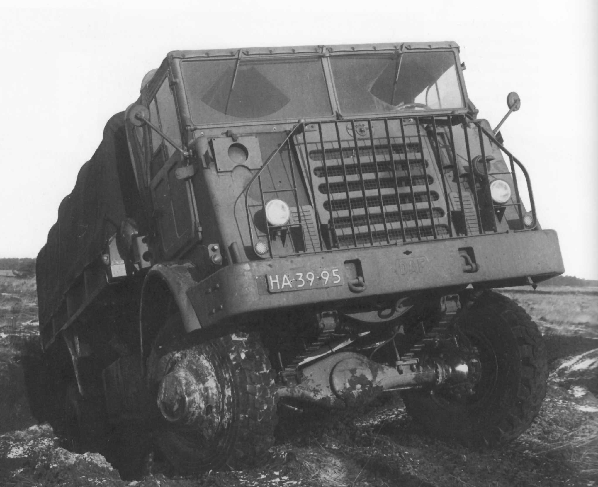 DAF YA 414 Prototype (went into production, under DAF license, as Pegaso 3020).